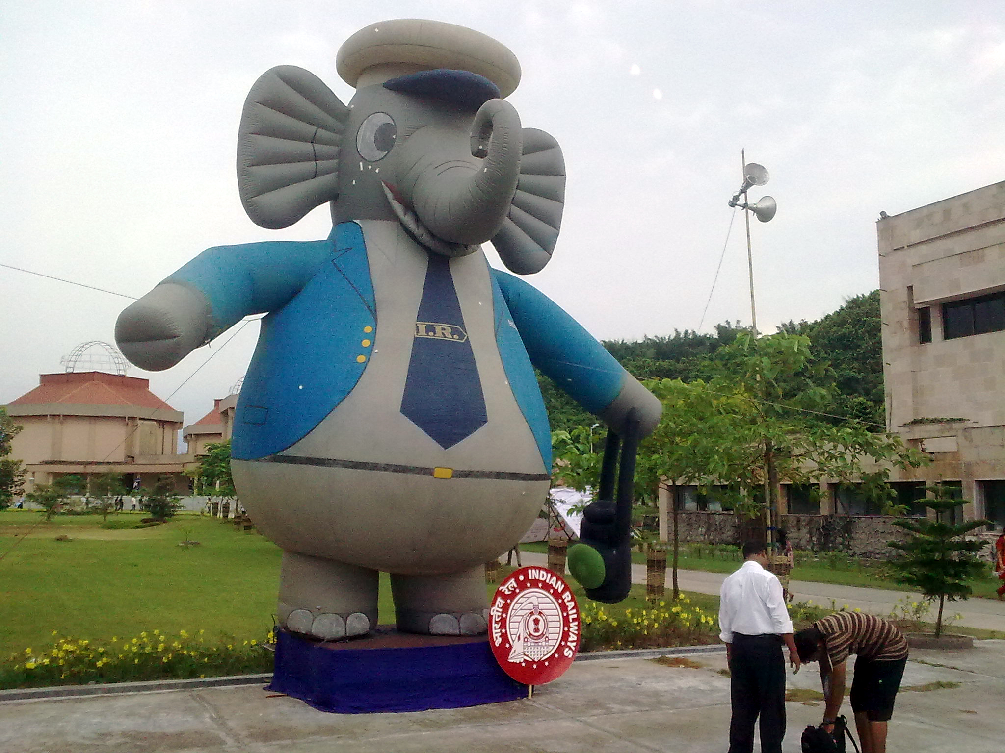 A balloon of Bholu, the Mascot of Indian Railways is being displayed at III Guwahati during its annual techfest Techniche 2011.